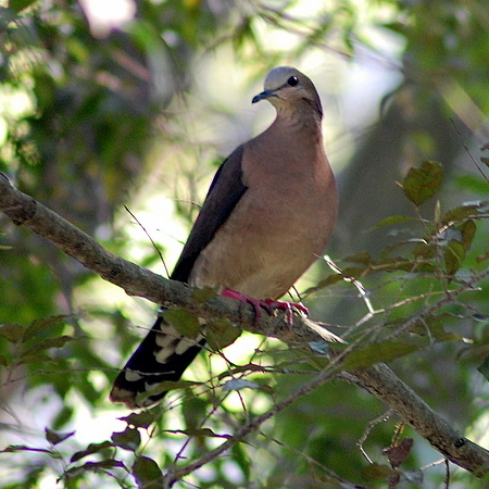 Grey-fronted Dove (Leptotila rufaxilla) in a tree.